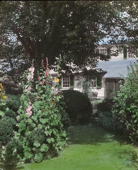 Title [Mary Ball Washington house, 1200 Charles Street, Fredericksburg, Stafford County, Virginia. Pathway] Contributor Names Johnston, Frances Benjamin, 1864-1952, photographer Created / Published [1927] Subject Headings - Gardens--Virginia--Fredericksburg--1920-1930 - Houses--Virginia--Fredericksburg--1920-1930 - Hollyhocks--Virginia--Fredericksburg--1920-1930 Format Headings Lantern slides--Hand-colored--1920-1930. Notes - Site History. House: Built 1761 with later additions. Today: House extant as part of Association for the Preservation of Virginia Antiquities. - Slide manufactured by Edward Van Altena, 71-79 W. 45th St., New York, N.Y. - Title, date, and subject information provided by Sam Watters, 2011. - Forms part of: Garden and historic house lecture series in the Frances Benjamin Johnston Collection (Library of Congress). Medium 1 photograph : glass lantern slide, hand-colored ; 3.25 x 4 in. Call Number/Physical Location LC-J717-X99- 51 [P&P] Repository Library of Congress Prints and Photographs Division Washington, D.C. 20540 USA Digital Id ppmsca 16209 //hdl.loc.gov/loc.pnp/ppmsca.16209 Library of Congress Control Number 2007685100 Reproduction Number LC-DIG-ppmsca-16209 (digital file from original item) Rights Advisory No known restrictions on publication. Online Format image Description 1 photograph : glass lantern slide, hand-colored ; 3.25 x 4 in. LCCN Permalink